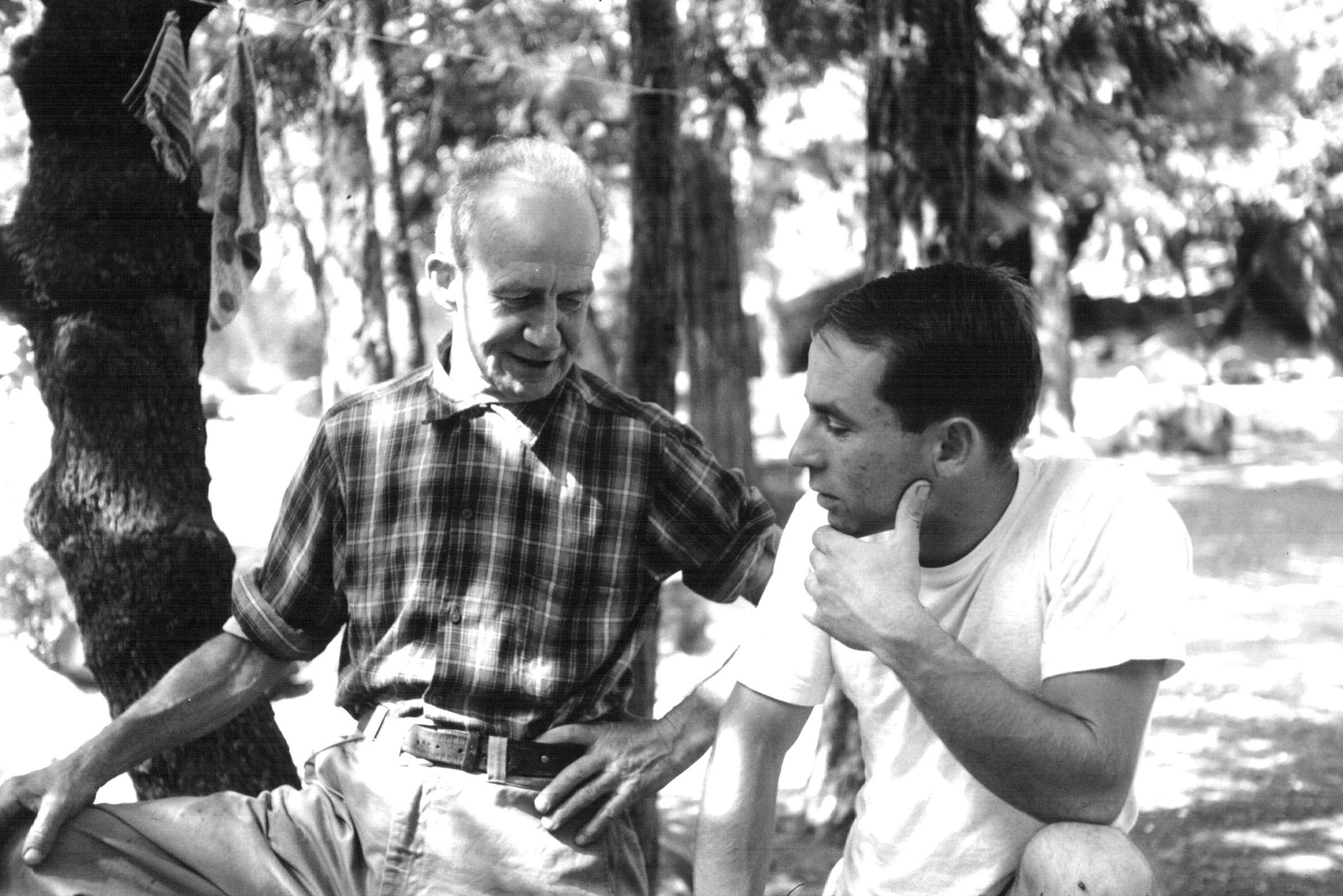 John Salathé and Yvon Chouinard at Camp 4, Yosemite Valley, California, October 1964